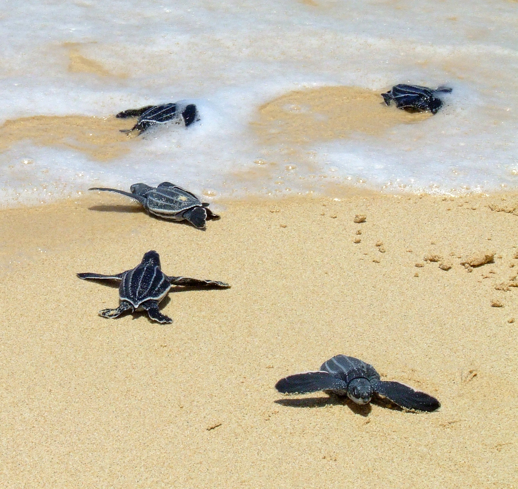 Leatherbacks crawling to the sea. Tinglares arrastrandose hasta el mar